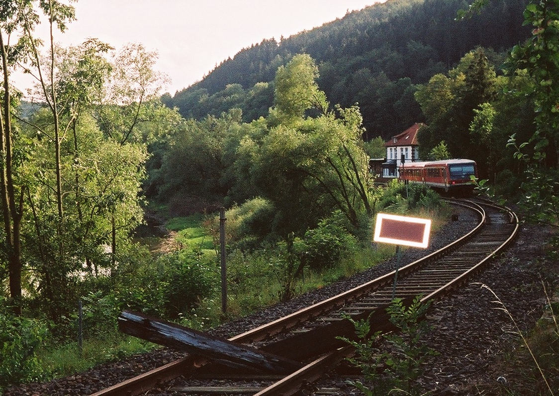 Extra train for weekend tourism at Herzhausen train station, at the former railway line between Frankenberg (Eder) and Korbach in Hesse, Germany